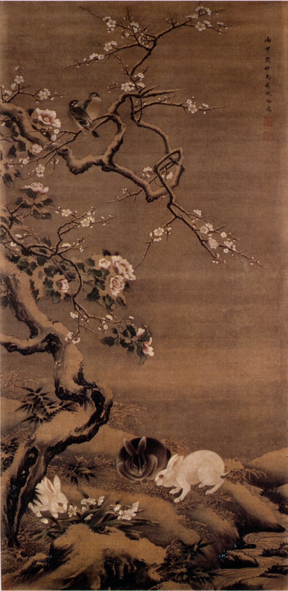 沈南蘋 雪梅群兎図 康煕55年（1716）渋谷区立松涛美術館寄託 橋本コレクション Shen_Nanpi,Pair_of_Hares_and_Plum_Blossom_in_the_Snow,A_hanging_scroll,Color_on_silk,a_Qing_dynasty,Hashimoto_Collection.